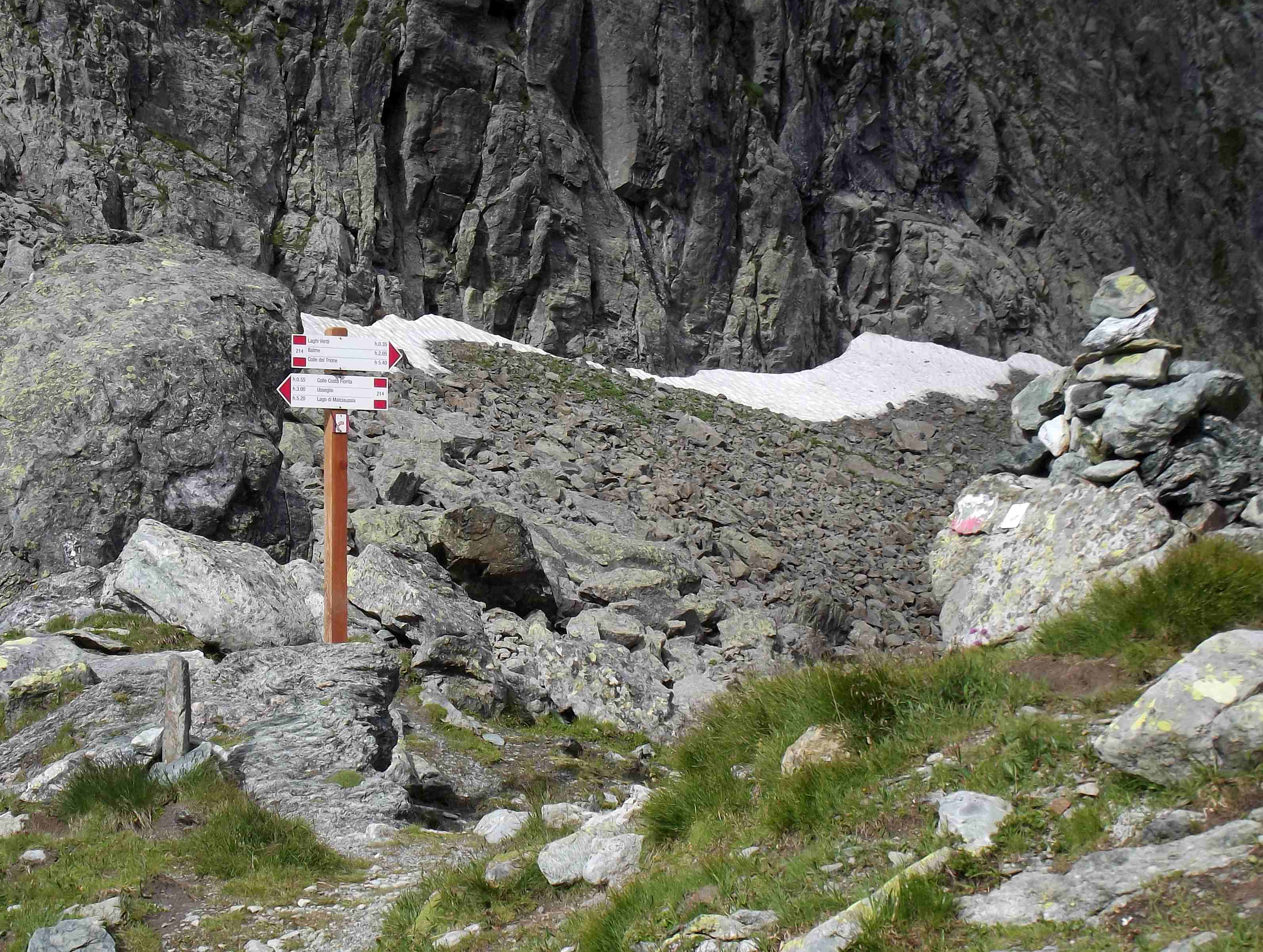 Passo Paschiet (TO, Italy, Graian Alps) as seen from Valle di Viù